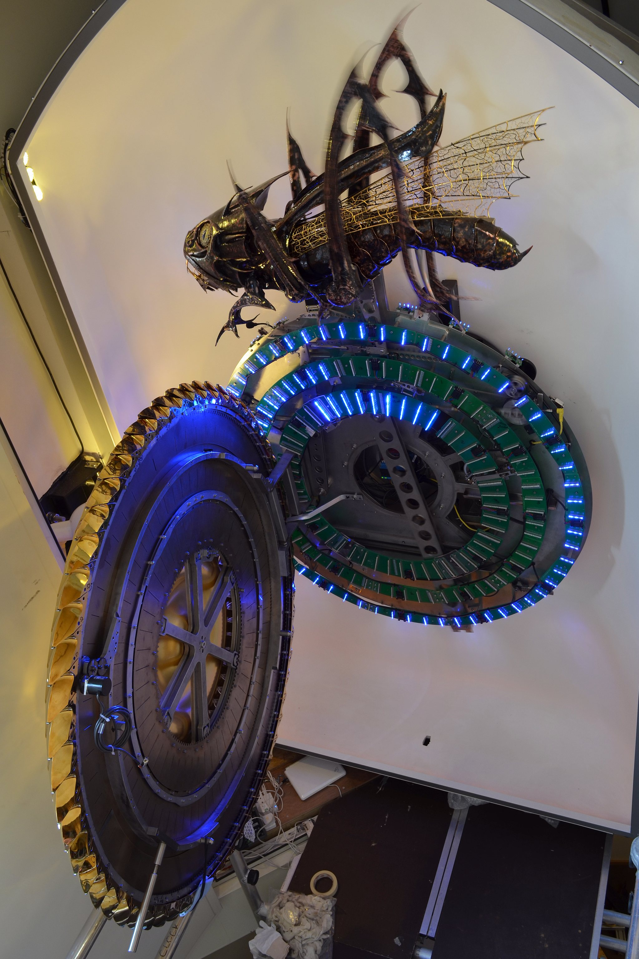 The Corpus Clock opened to show its interior in September 2014.